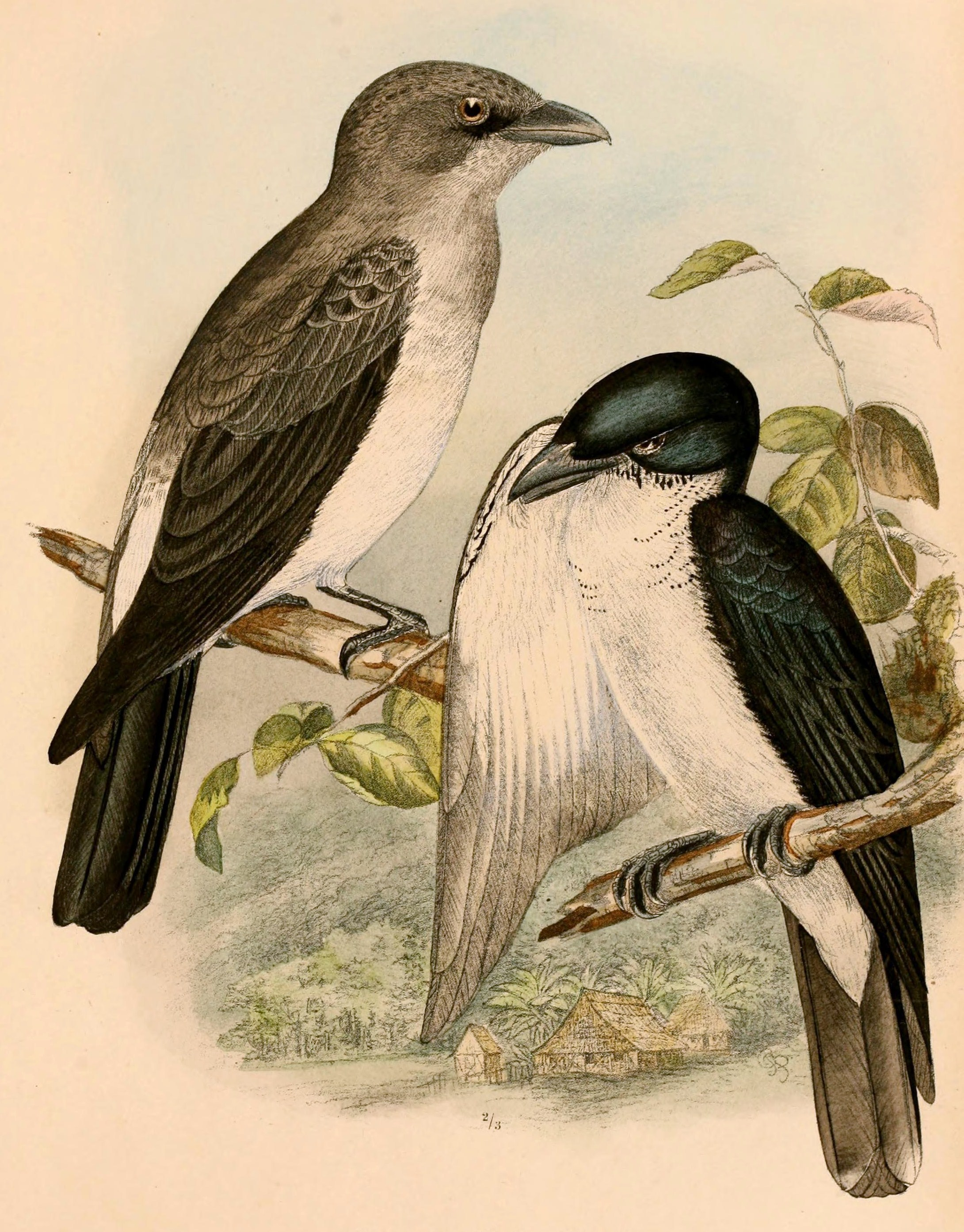 « Graucalus bicolor » = Coracina bicolor (Pied Cuckooshrike) - male and female